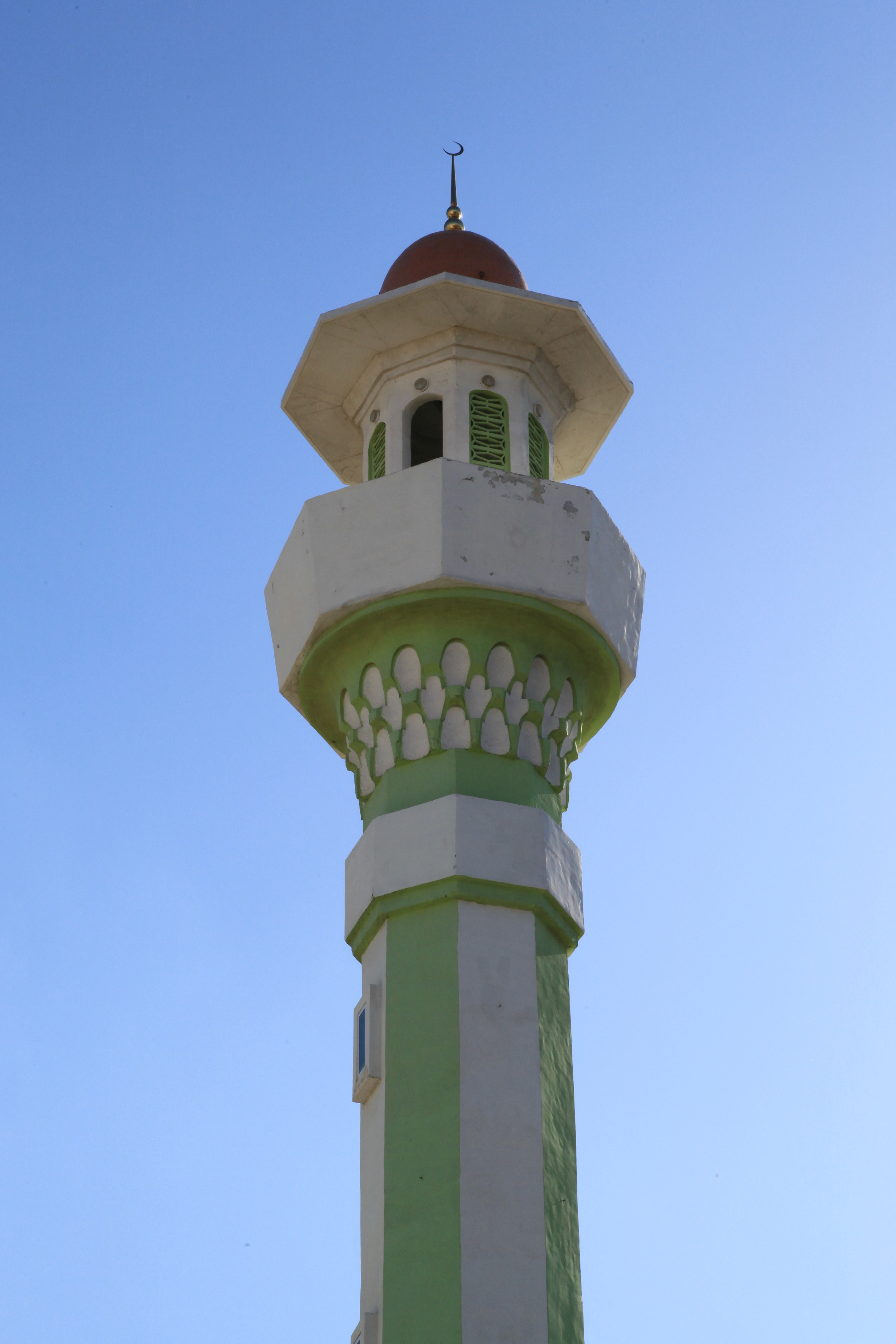 Mariam Al-Batool Mosque at Triq Kordin in Paola, Malta